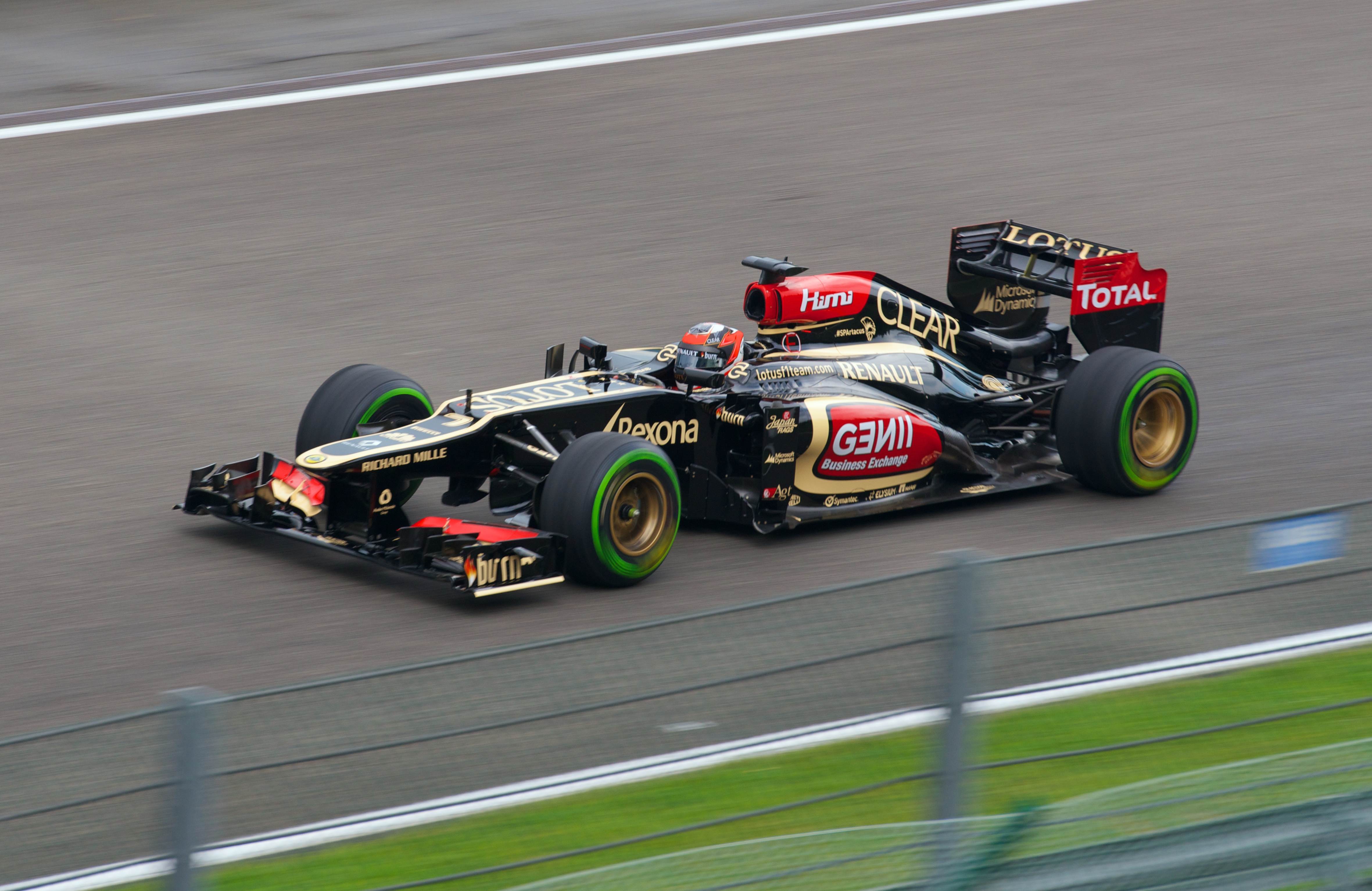 Kimi Räikkönen driving a Lotus E21 Formula One racing car, during practice for the 2013 Belgian Grand Prix.